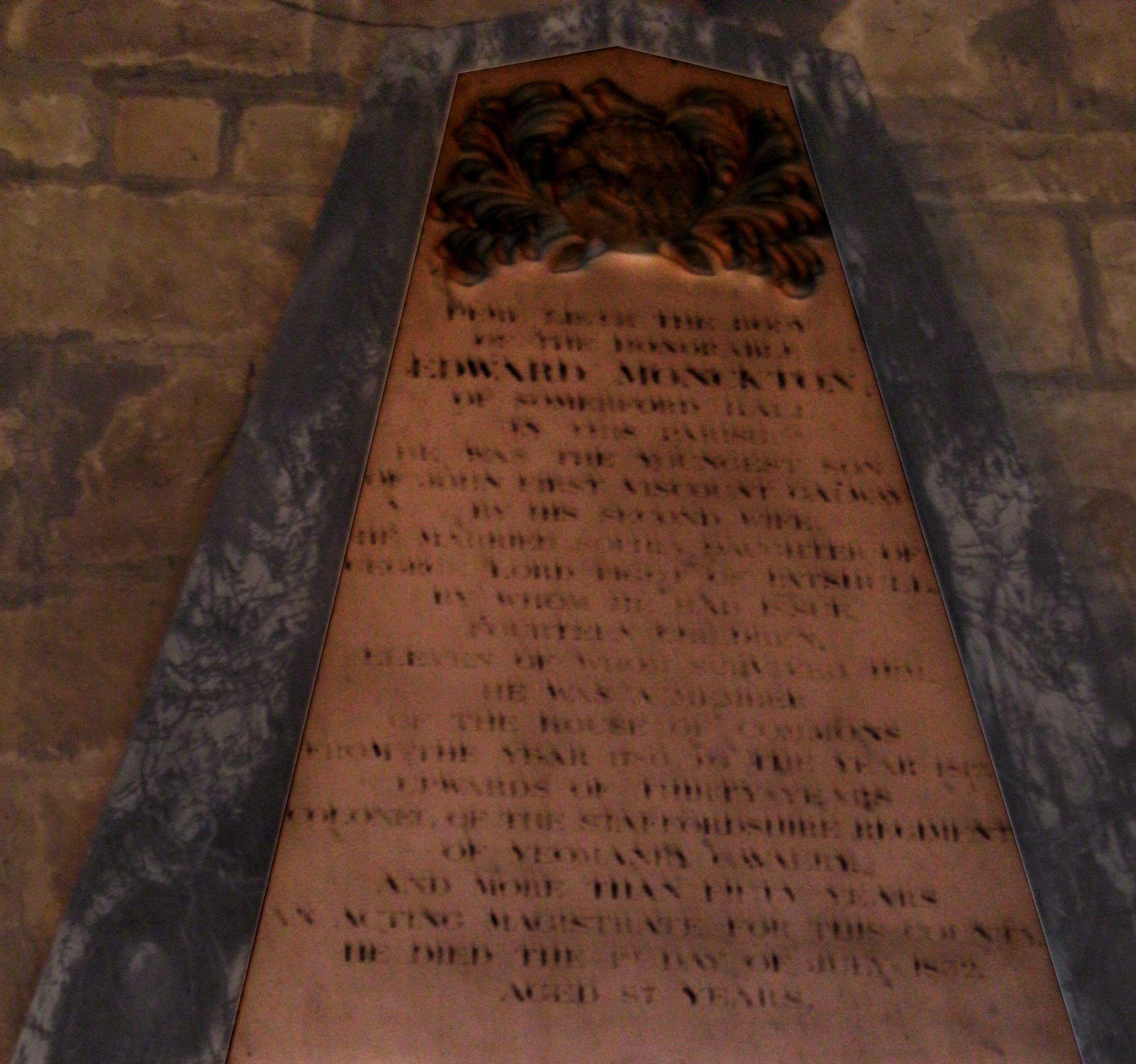 Memorial to Edward Monckton, nabob, landowner and MP for Stafford 1780-1812, Brewood parish church.